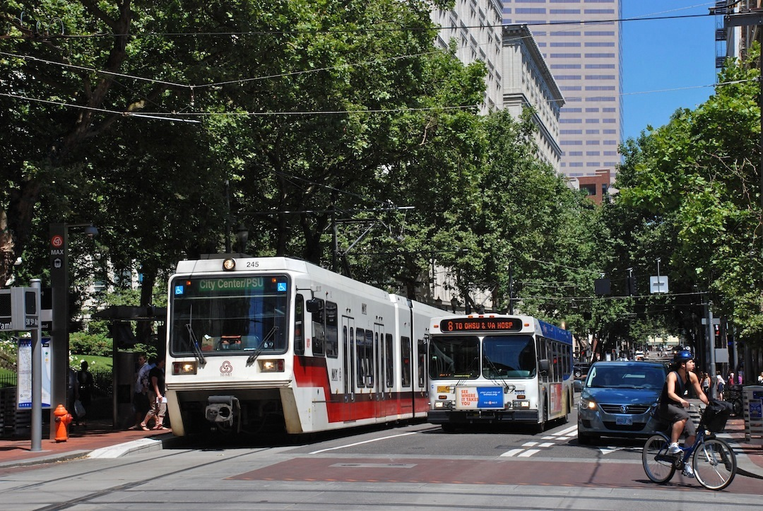 An inbound MAX train being passed by a bus on the Portland Transit Mall of TriMet, in Portland, Oregon, U.S.A. The transit mall opened for buses in late 1977. It was closed in 2007 for renovation and rebuilding, including the addition of light rail (MAX) tracks, and reopened in 2009. The MAX train seen here is in service on the Green Line and is headed for Portland State University, at the south end of Downtown Portland (as the city center is almost universally called, in contrast to TriMet's "City Center" signs), and is stopped at the "Pioneer Place/SW 5th Avenue" station. The bus is bound for Oregon Health & Science University on route 8-Jackson Park.